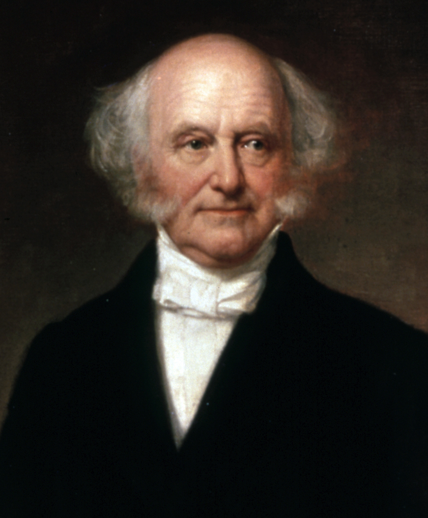 Official Presidential portrait of Martin van Buren